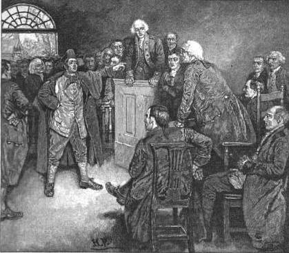 "Rescue of Sevier," an illustration depicting the escape of frontiersman John Sevier during his trial for high treason in North Carolina, in 1788. In the illustration, Sevier's fellow frontiersman, James Cosby, addresses the court, providing the distraction that allowed Sevier to escape.